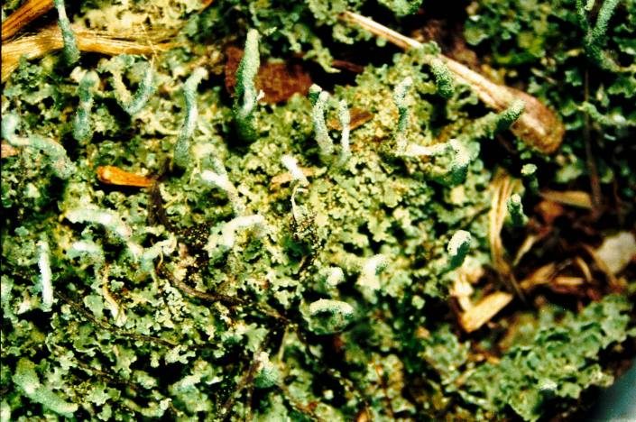 Cladonia bacillaris (Genth) Schaerer Photograph of a herbarium specimen taken through a dissecting microscope, x6. (Spot test reactions on podetia: PD-, K-) These specimens were growing on a rotten log near Locust Run on the western side of the Power Line clearing at the Soldiers Delight Natural Environment Area, Owings Mills, Baltimore County, Maryland, USA (N 39o24.043', W 76o50.719', Elevation 503 feet). Collected and determined by E.C. Uebel (No. U-629, 9 Jul 2006).